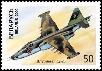 Stamp of Belarus